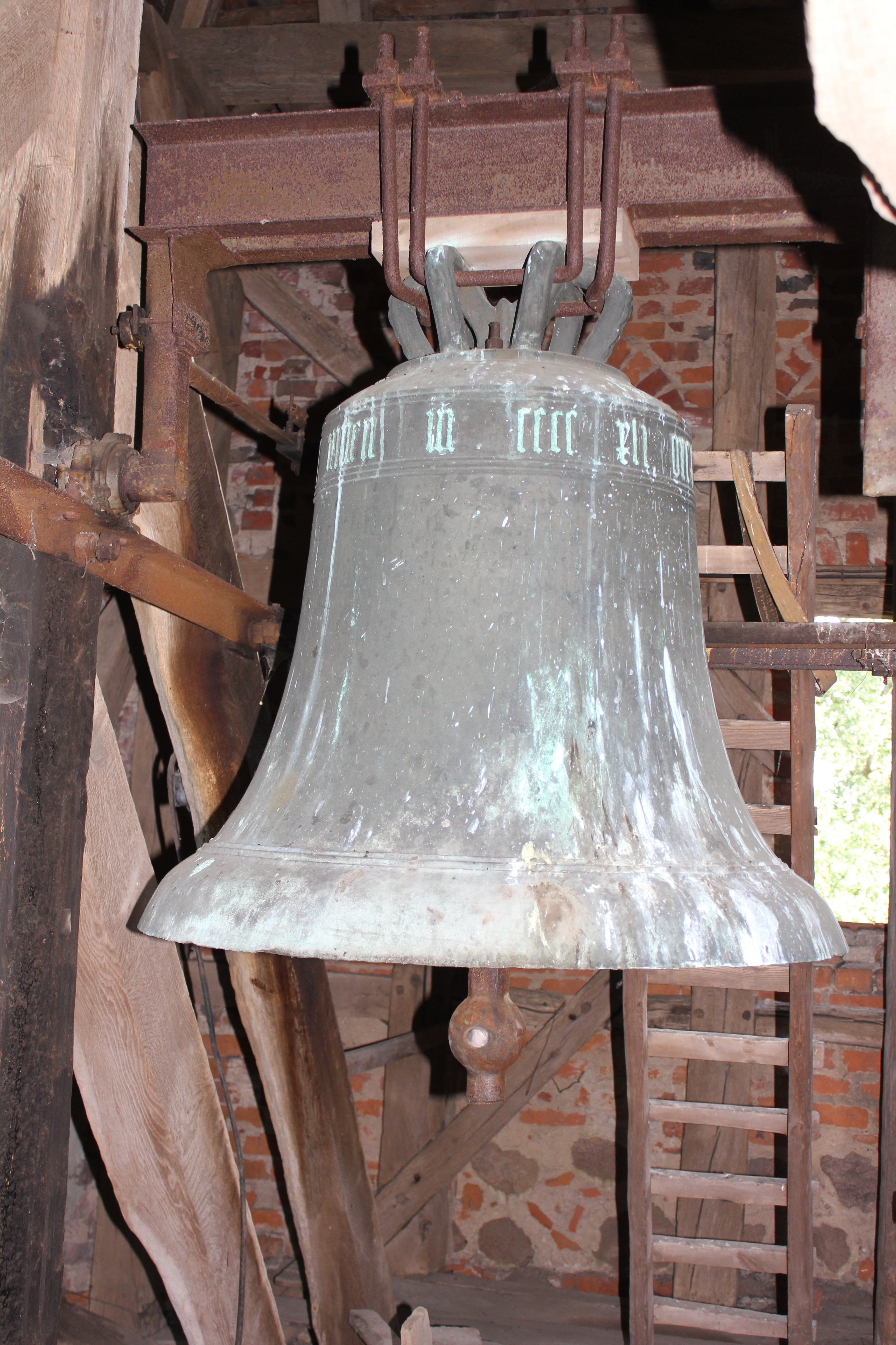 Bell of the Church in Unter Bruez, Germany